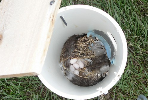 A clutch of tree swallow eggs. The tree swallow nests are constructed using feathers and bits of dried grass. I build the nest boxes using 5" diameter PVC pipe and mounting on fencepost. I have a removable lid to check on birds and to clean the box at the end of the nesting season. PVC is 'predator proof' and the tree swallows love them!!! Important to cut grooves below the hole for the parents to rest before entering the hole. Very high success rate using these nest boxes. Located in Kinburn, Ontario, Canada